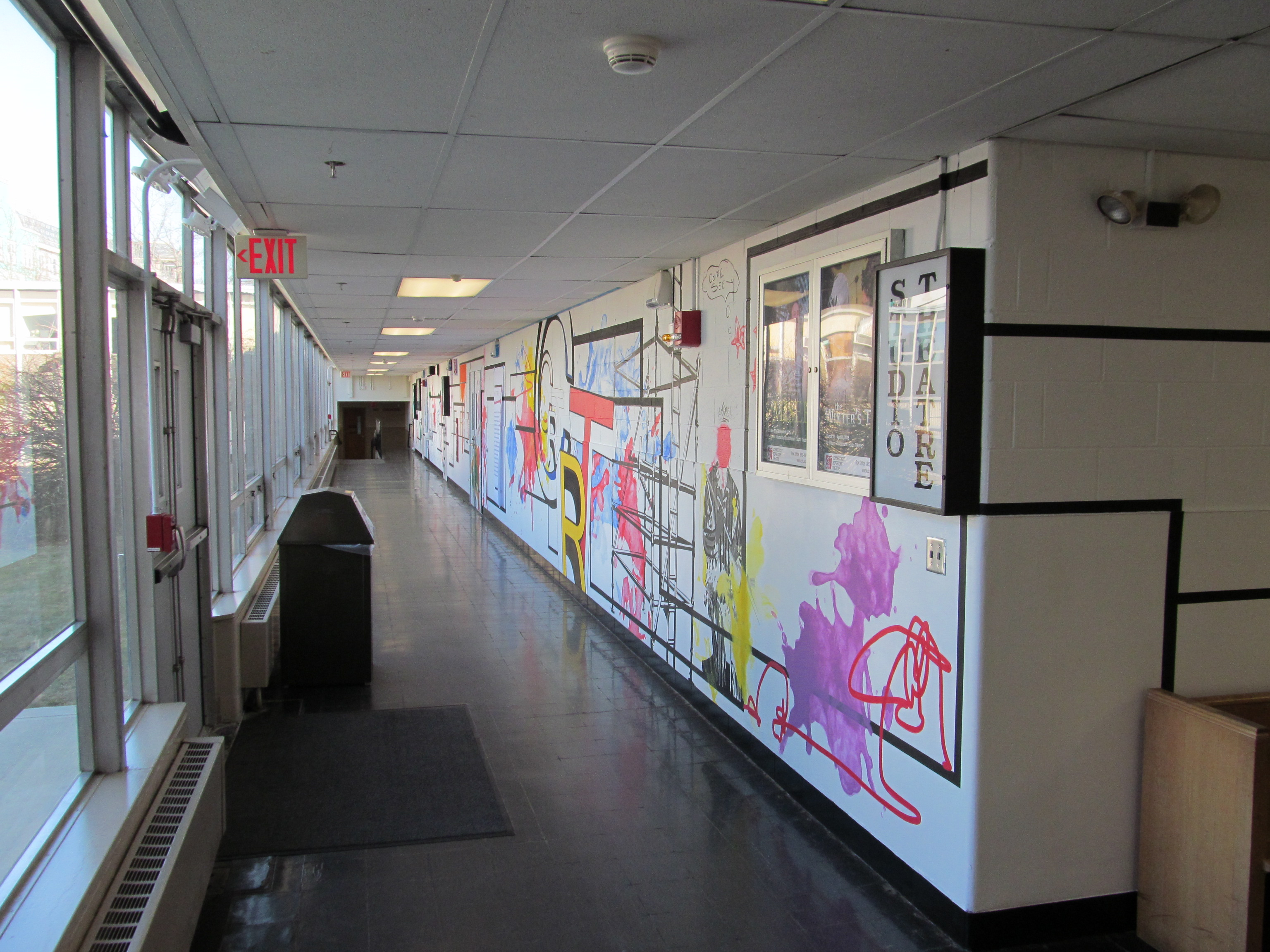 Lobby of the Studio Theatre, University of Connecticut, Storrs Connecticut - 2012